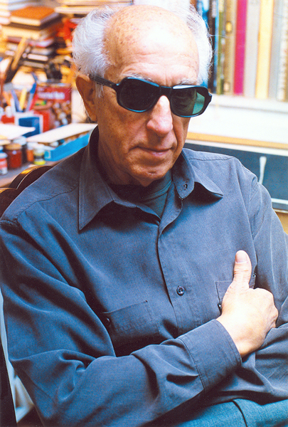 The artist in his studio.